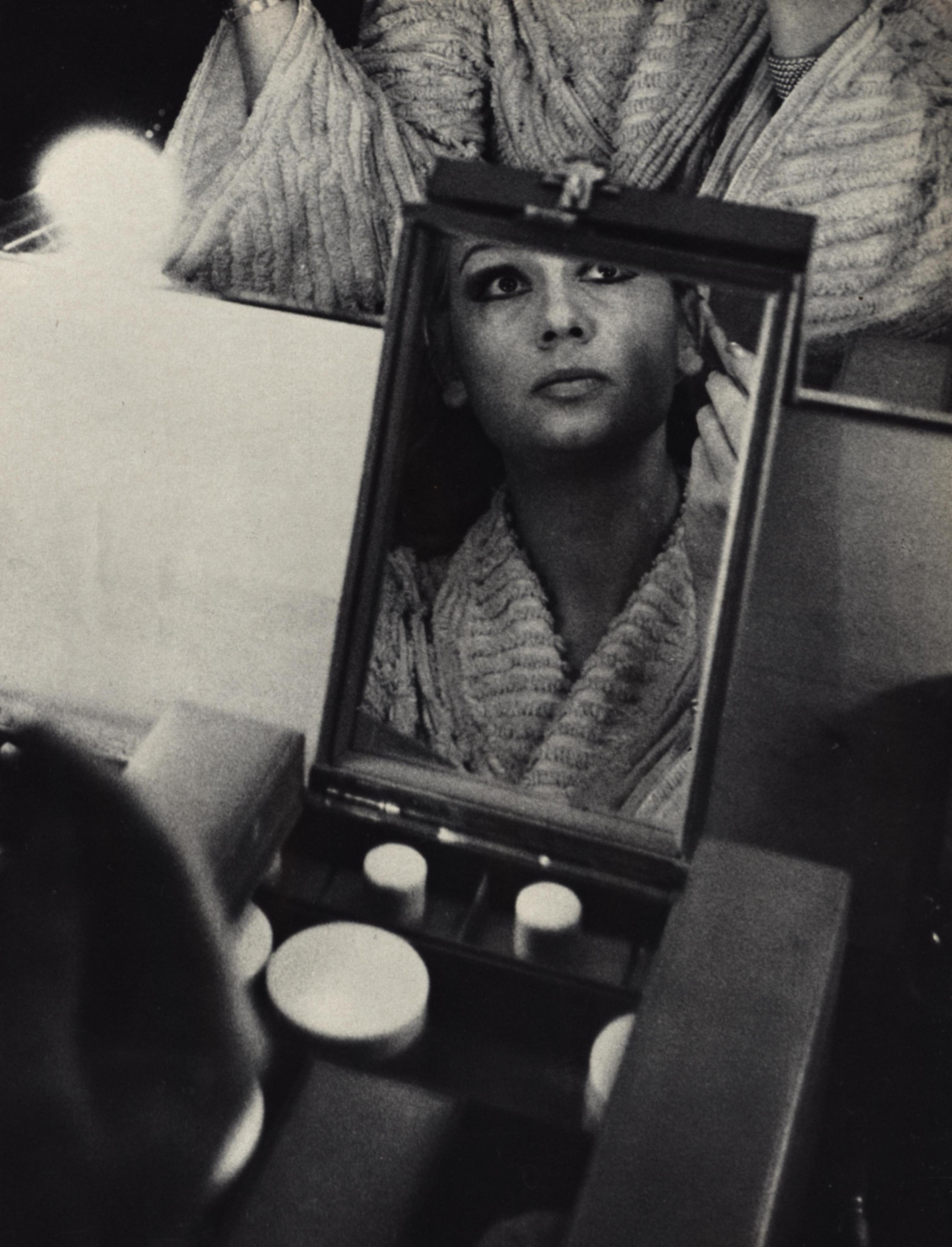 Israeli actress Elisheva Michaeli. From: Merom, Peter, Theatre, Tel Aviv: Sifriat Maariv (1965)